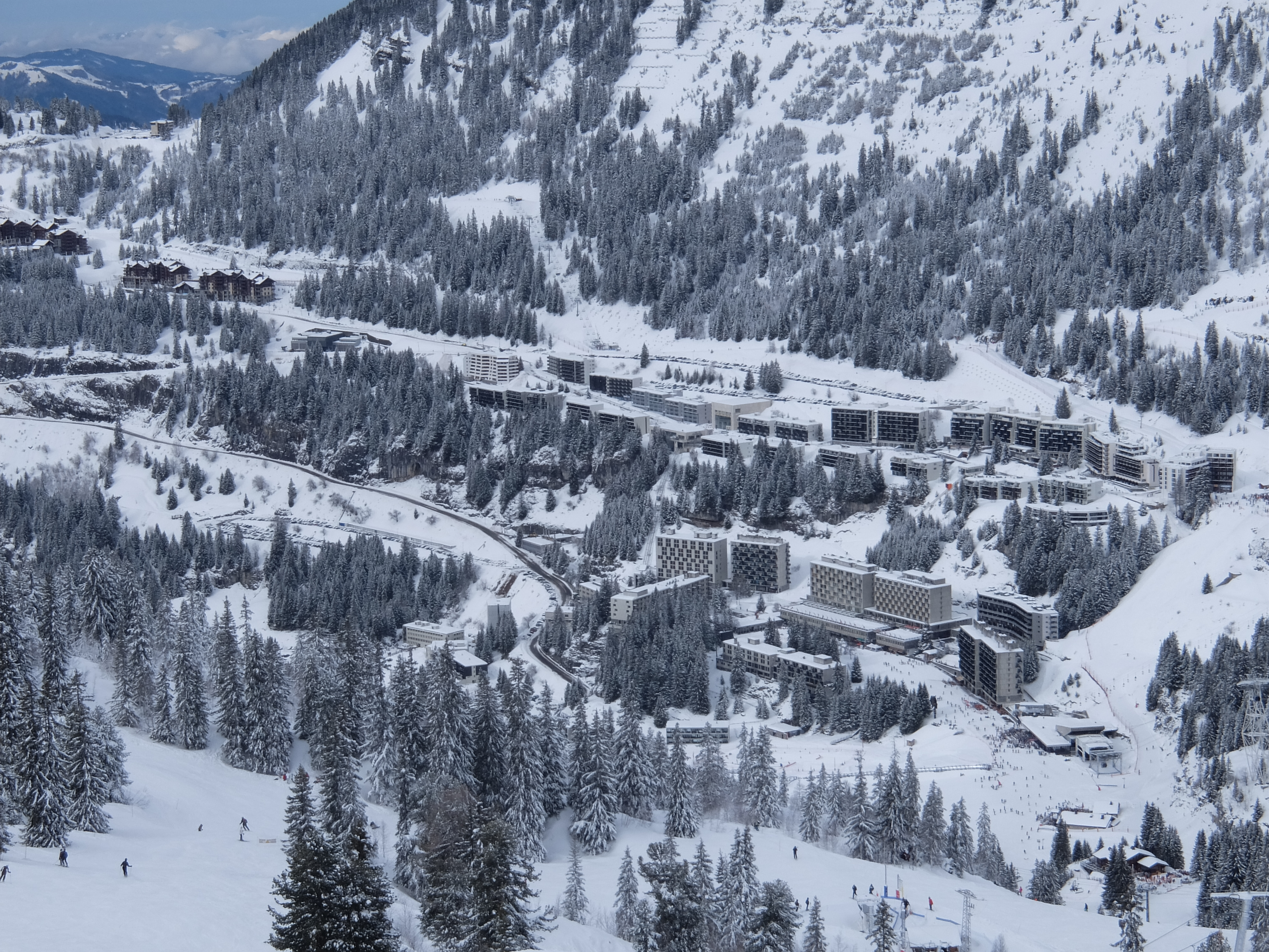 Picture of Flaine Ski Resort's main buildings. Picture taken from the side of the Aup de Veran ski lift.